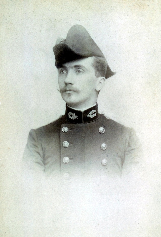 Maximilien Marie de Ficquelmont, en uniforme de polytechnicien